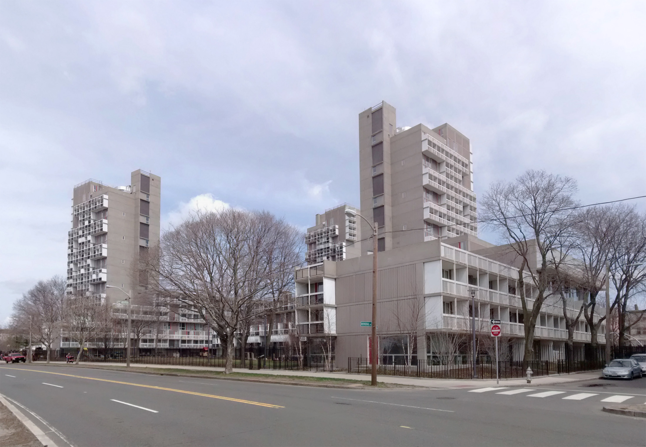 Josep Lluís Sert, Peabody Terrace, Harvard University Housing, Memorial Drive, Cambridge, Massachusetts, Apr. 2014